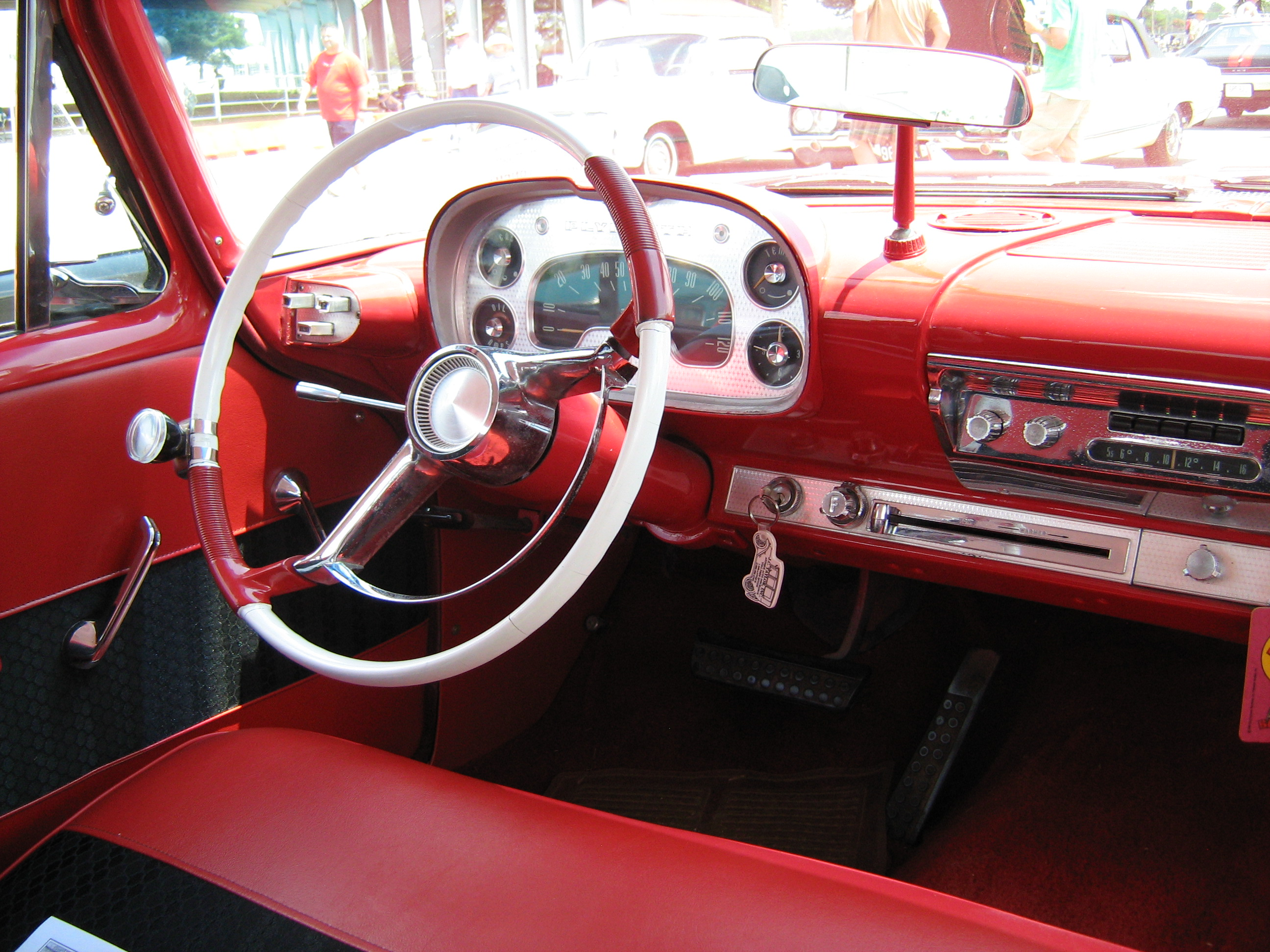 Standard interior of a 1958 Plymouth Savoy 4-door sedan. The automobile is finished in red with a white top. The push-buttons for the automatic transmission are located on the panel to the left of the steering wheel.